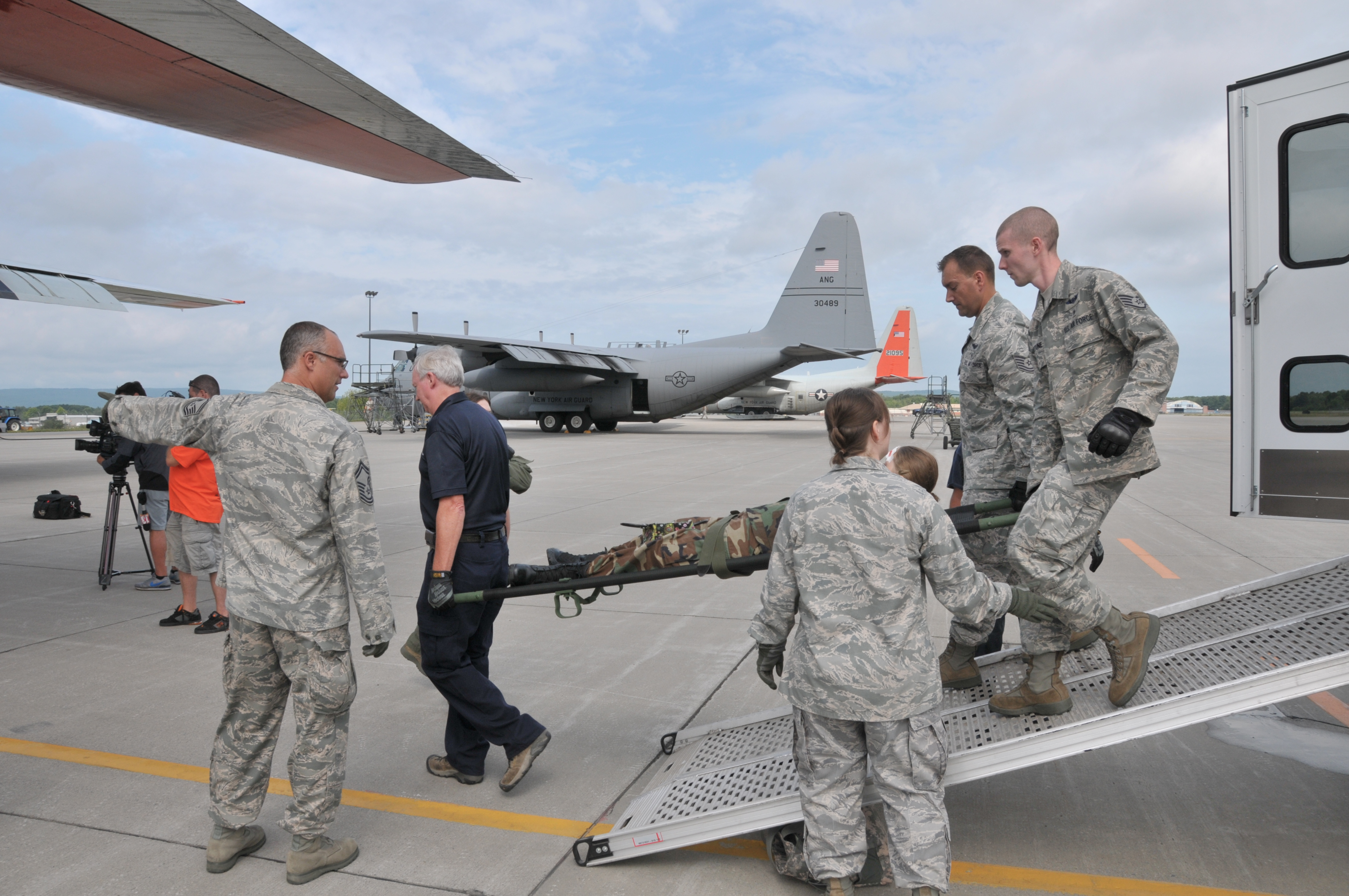 Airman assigned to the 139th Aeromedical Evacuation Squadron of the 109th Airlift Wing work alongside civilian agencies to carry a simulated patient, a Civil Air Patrol cadet, to an LC-130 aircraft Aug. 8, 2013. The patient transport is part of an exercise, which highlighted the vital function of the 109AW and 139AES in the National Disaster Medical System and homeland defense mission as well as the cooperation and coordination between the 109AW and New York state civilian medical and emergency management assets. (U.S. Air National Guard photo by Senior Airman Benjamin P. German/Released)